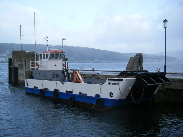 Inchmarnock ferryboat, MV Marnock, at Rothesay pier.